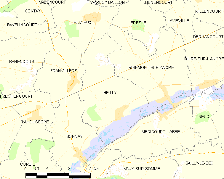 Map of French municipality Heilly